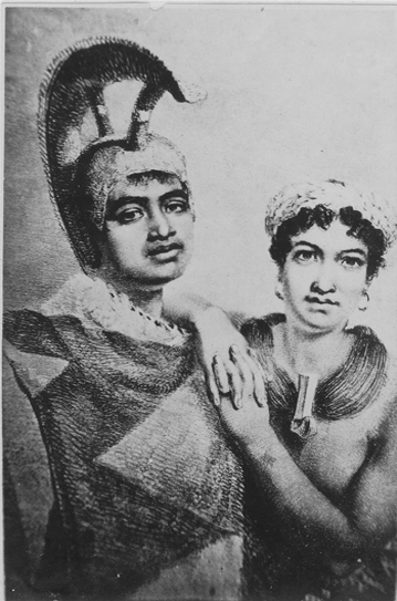 Govenor Boki of Oahu and his Wife Liliha, drawing by John Hayter, 1824. Liliha wears a lei niho palaoa, made of braided human hair with an ivory pendant, and feather lei hulu on her head. Boki wears a feather cloak and mahiole or helmet.